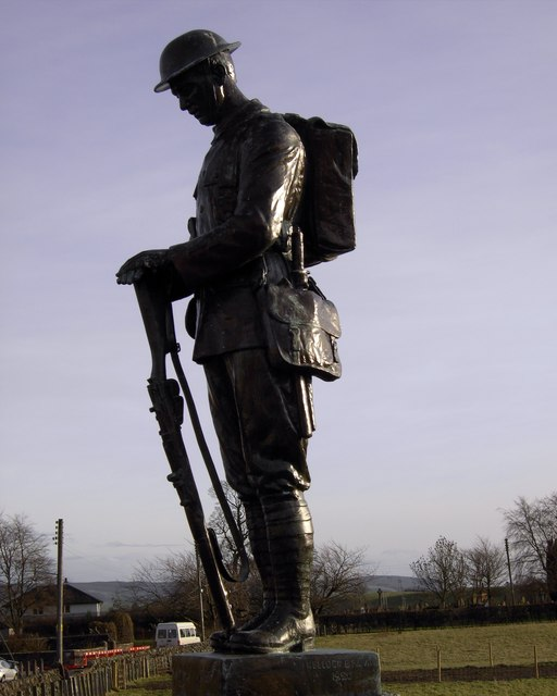 Bronze statue on the war memorial in Penpont, Dumfriesshire